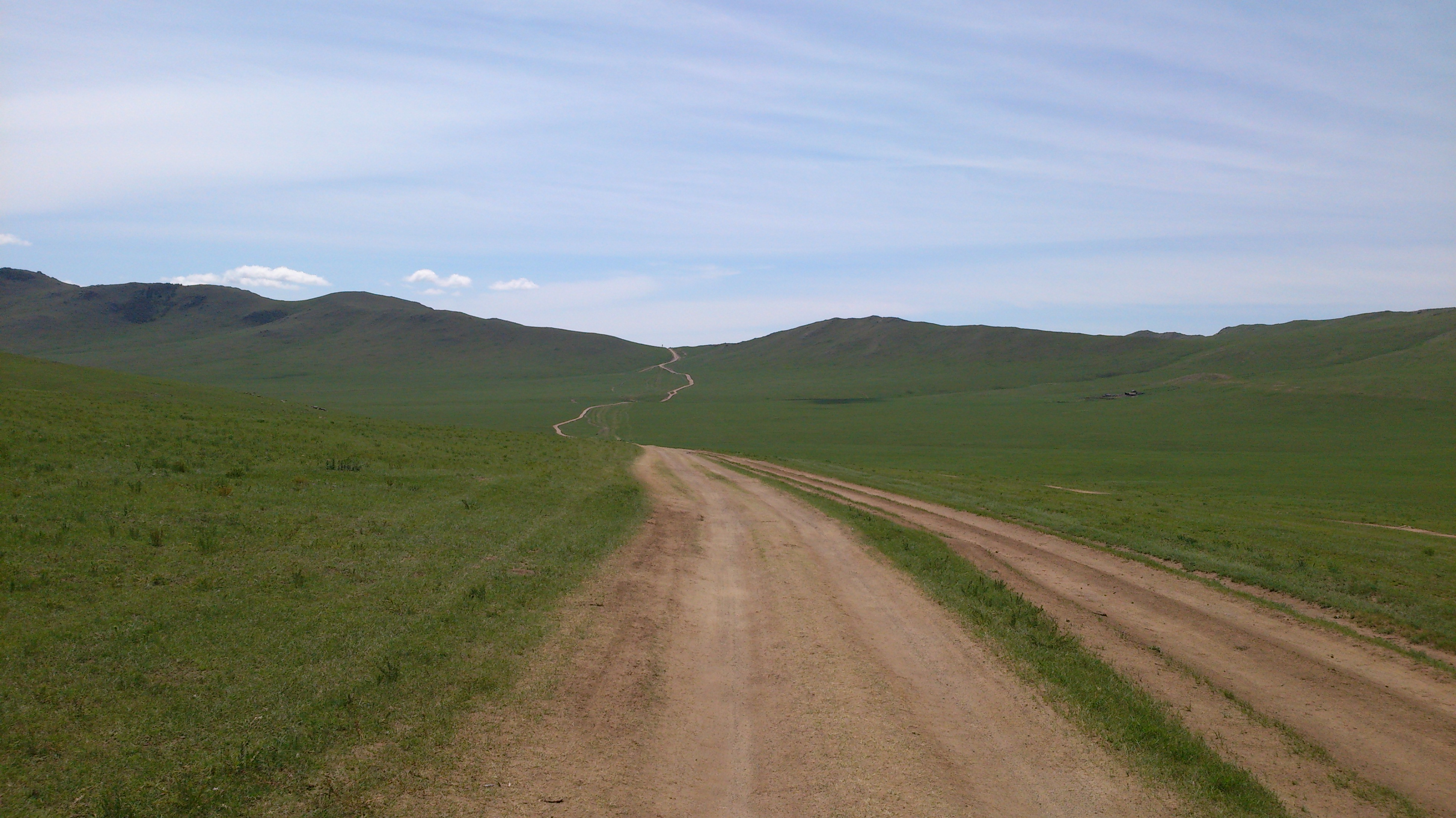 Dirt Road in Mongolia, about ten kilometers north of the village Saikhan. It is one of the main connections to the village, which is not connected by paved roads.